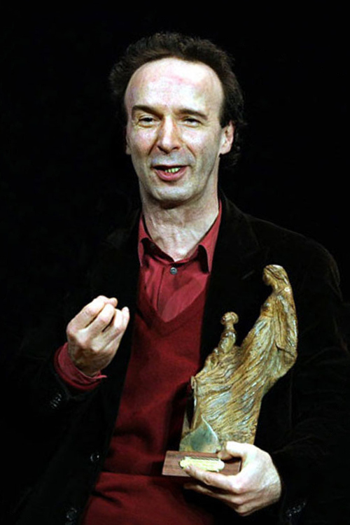 Italian actor and director Roberto Benigni won an award in Terni in the "Events Valentine"